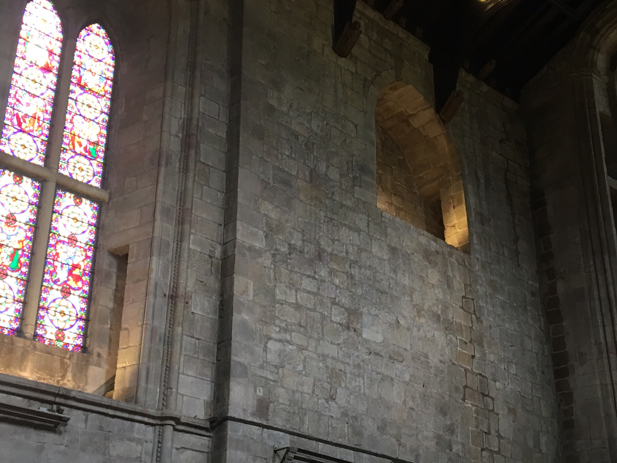 Alcove (original purpose unknown) in south wall of Bolton Priory, North Yorkshire, UK